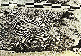 Stolovatez Stella